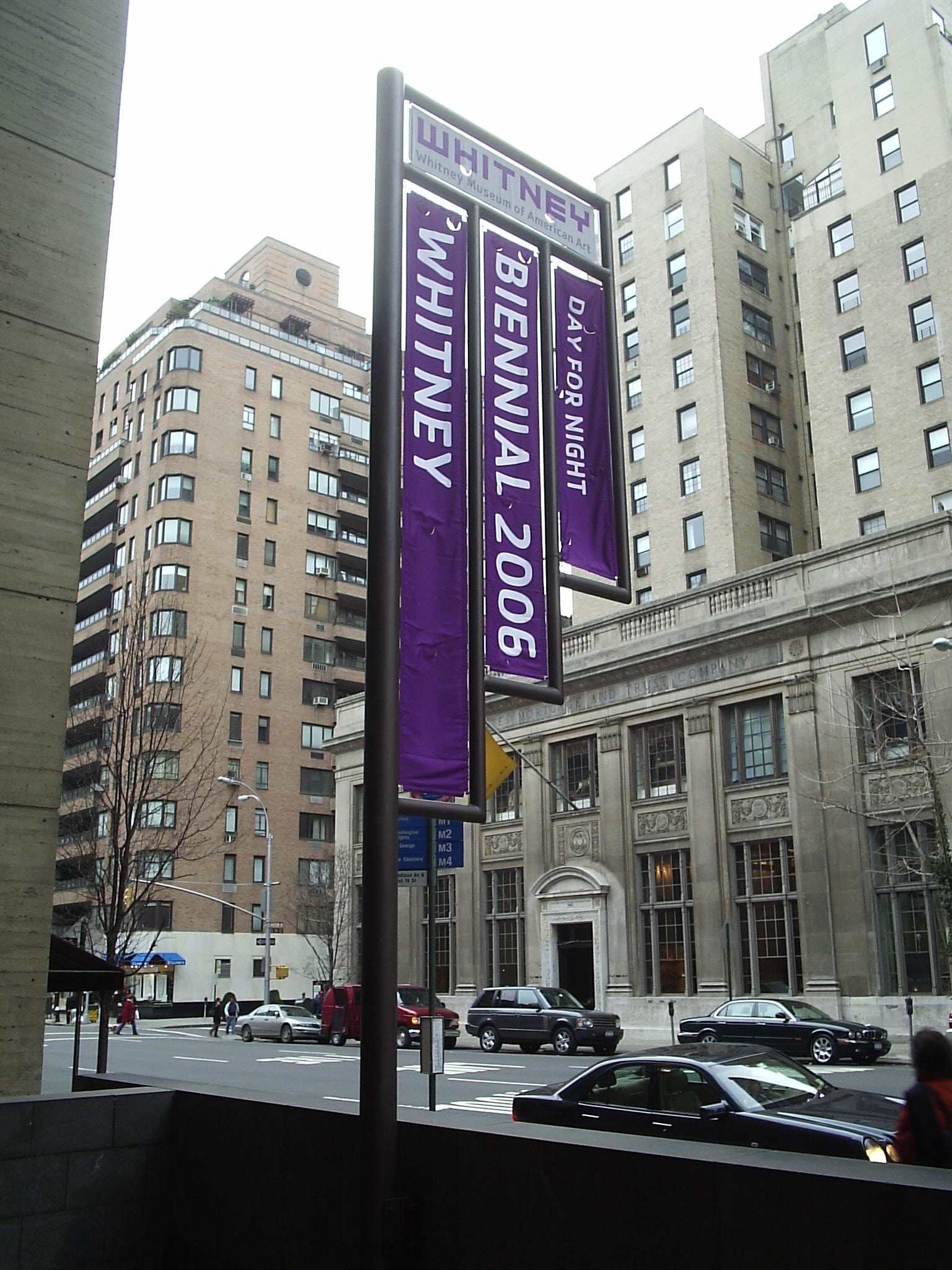 The front of the Whitney Museum of American Art during the 2006 Whitney Biennial